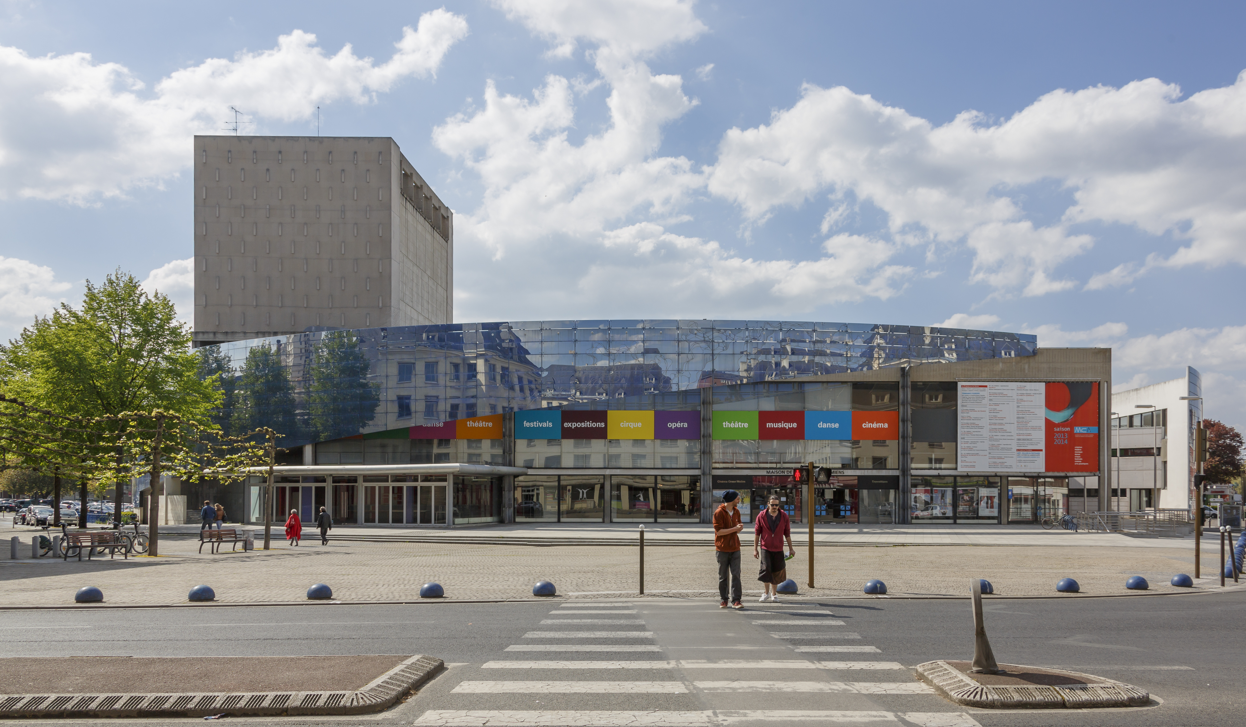 Amiens, France: Maison de la Culture at Léon Gontier Square